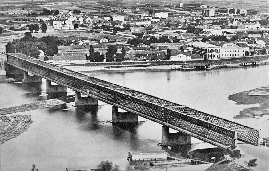 Praga and Kierbedź Bridge viewed from the tower of the Royal Castle